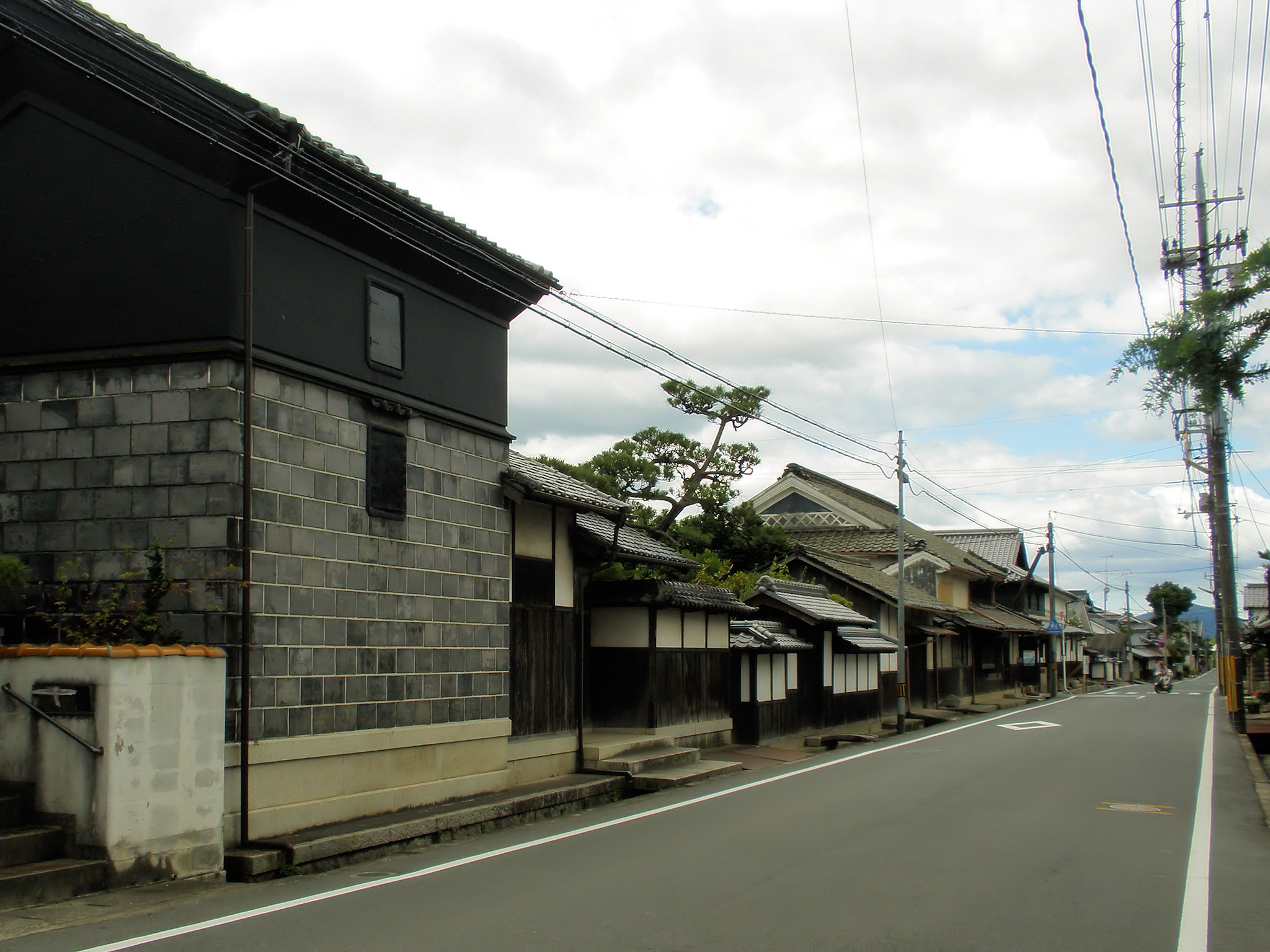 Ashimori, Kita-ku, Okayama.